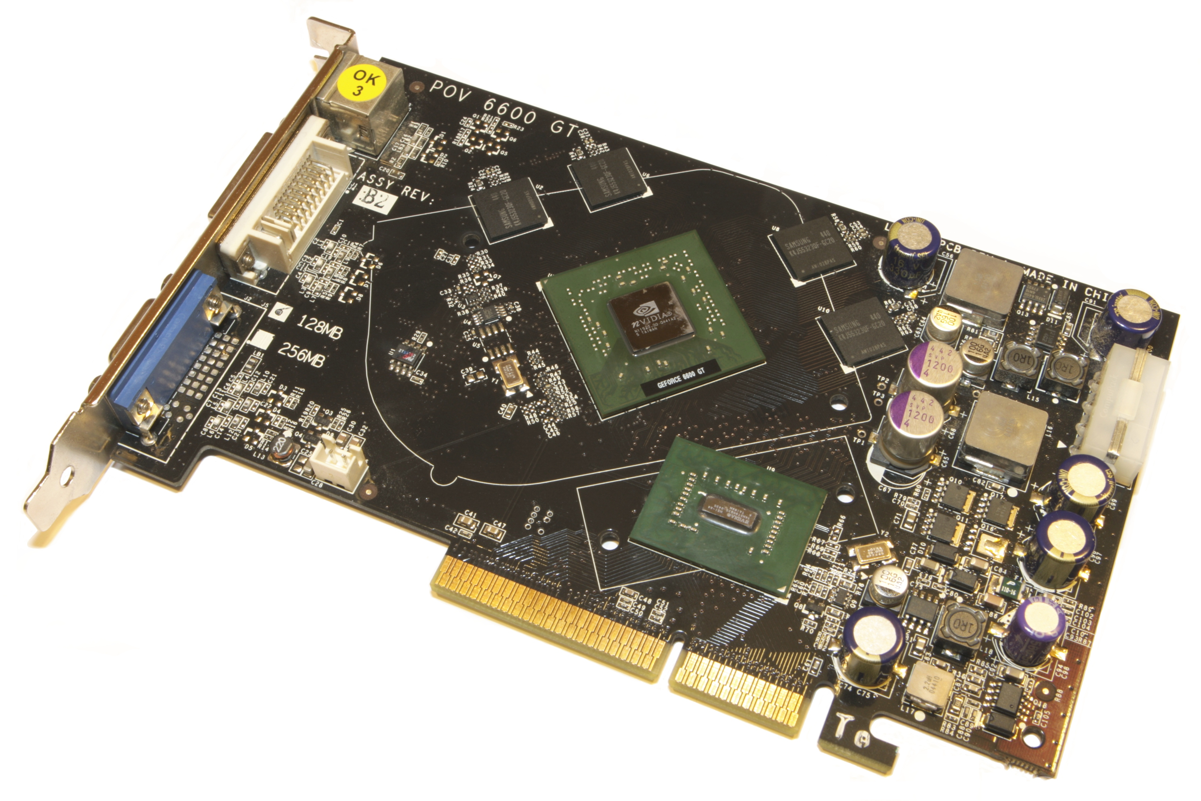 NVIDIA GeForce 6600GT AGP with GPU